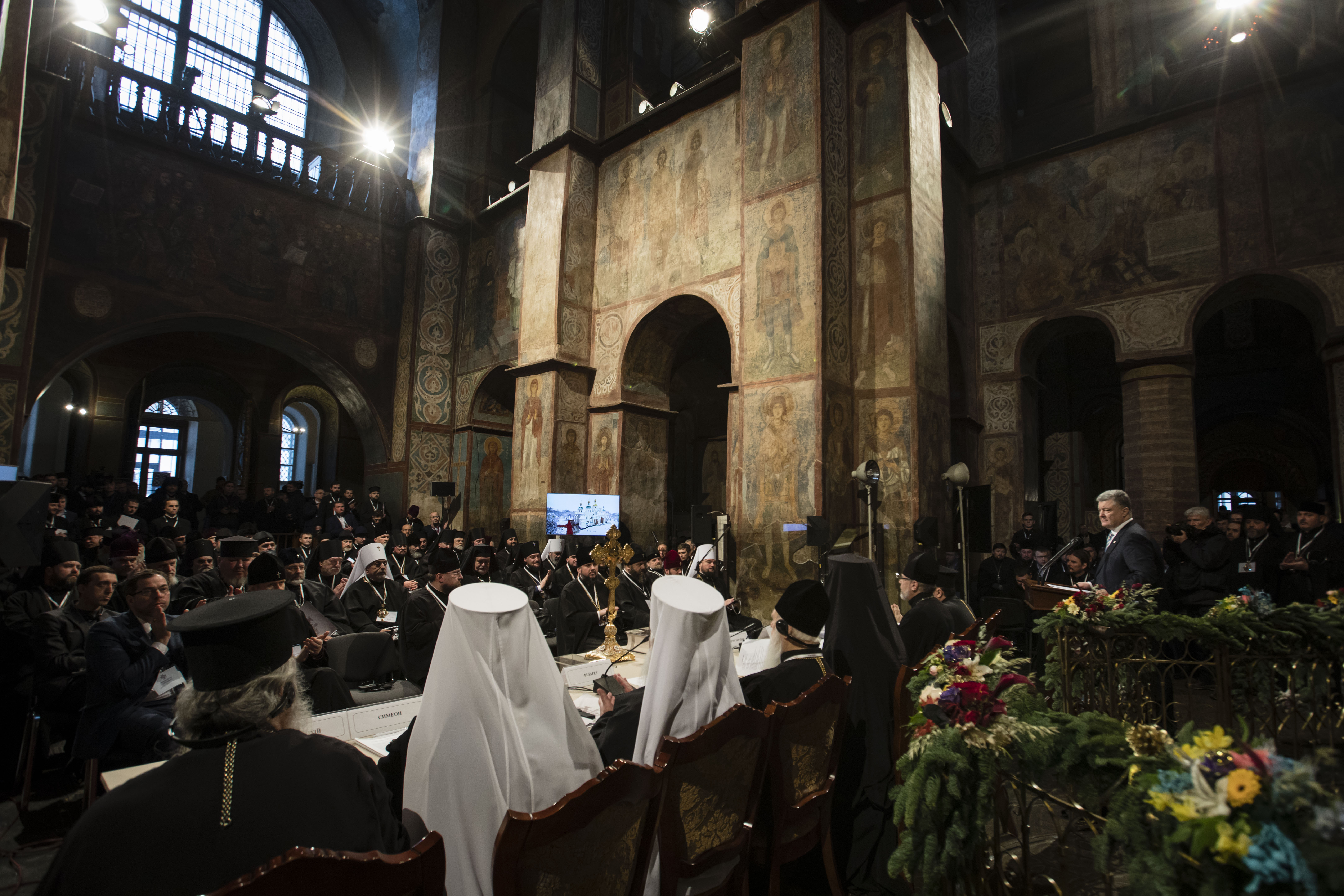 Unification council of Orthodox Church in Ukraine